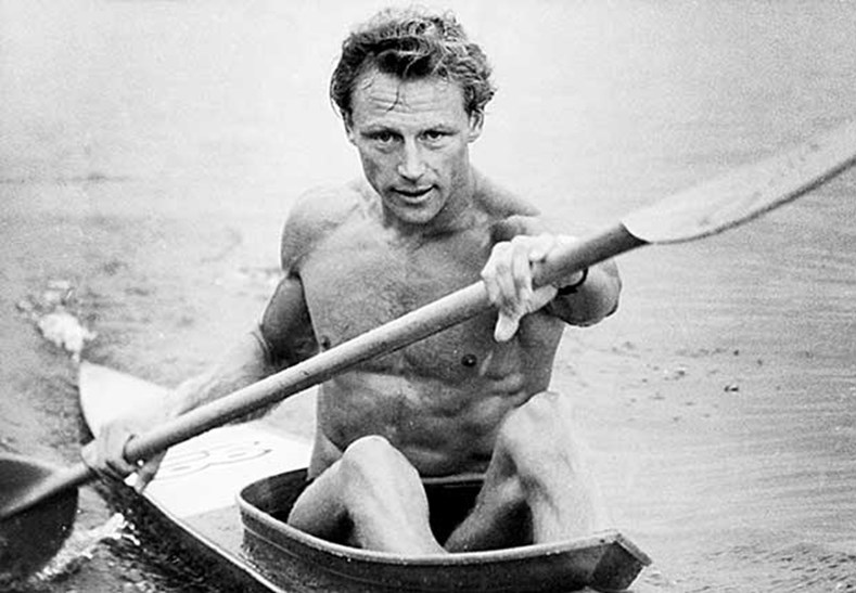 Gert Fredriksson at the 1948 Olympics